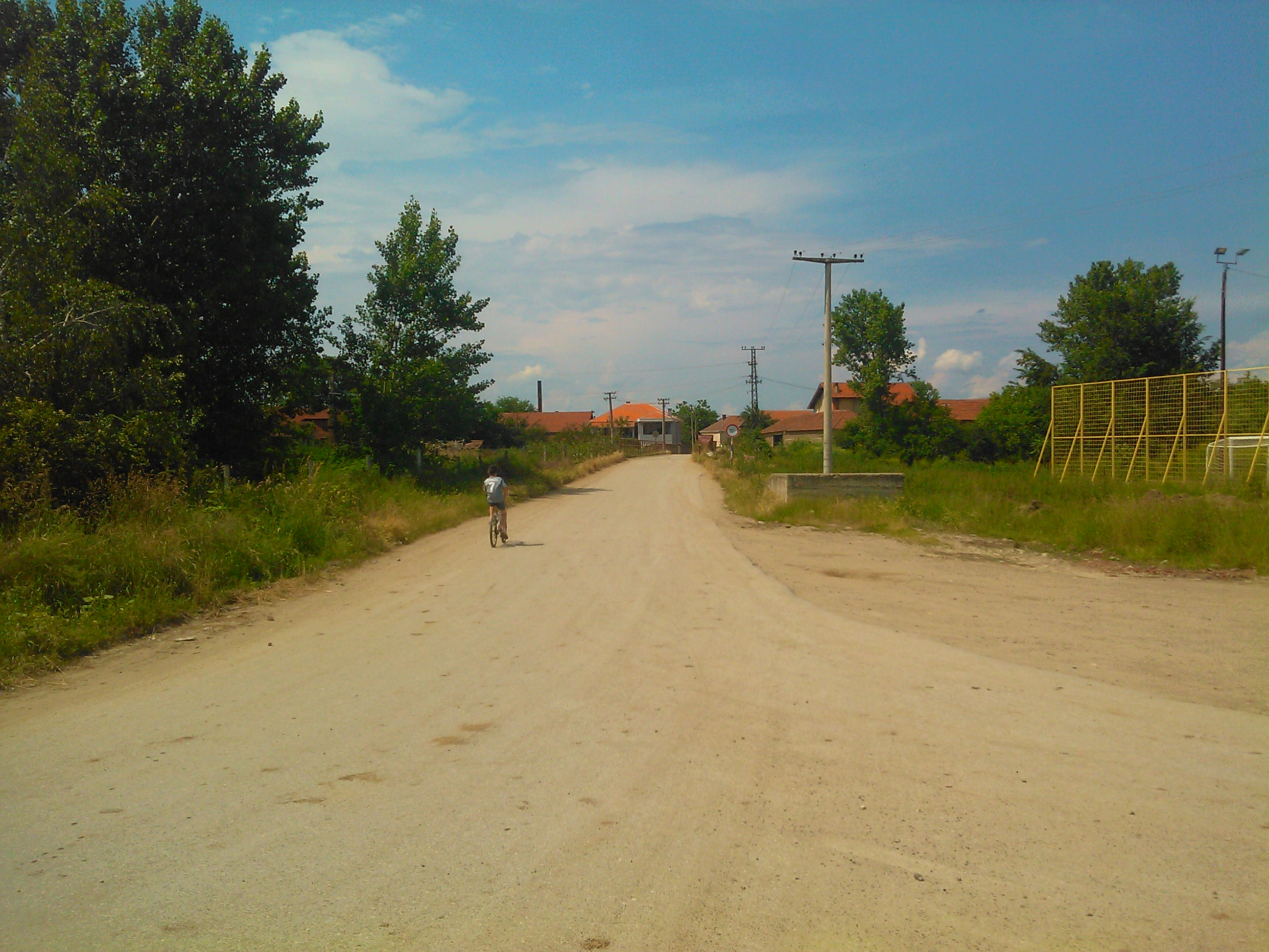 Most na Veternici